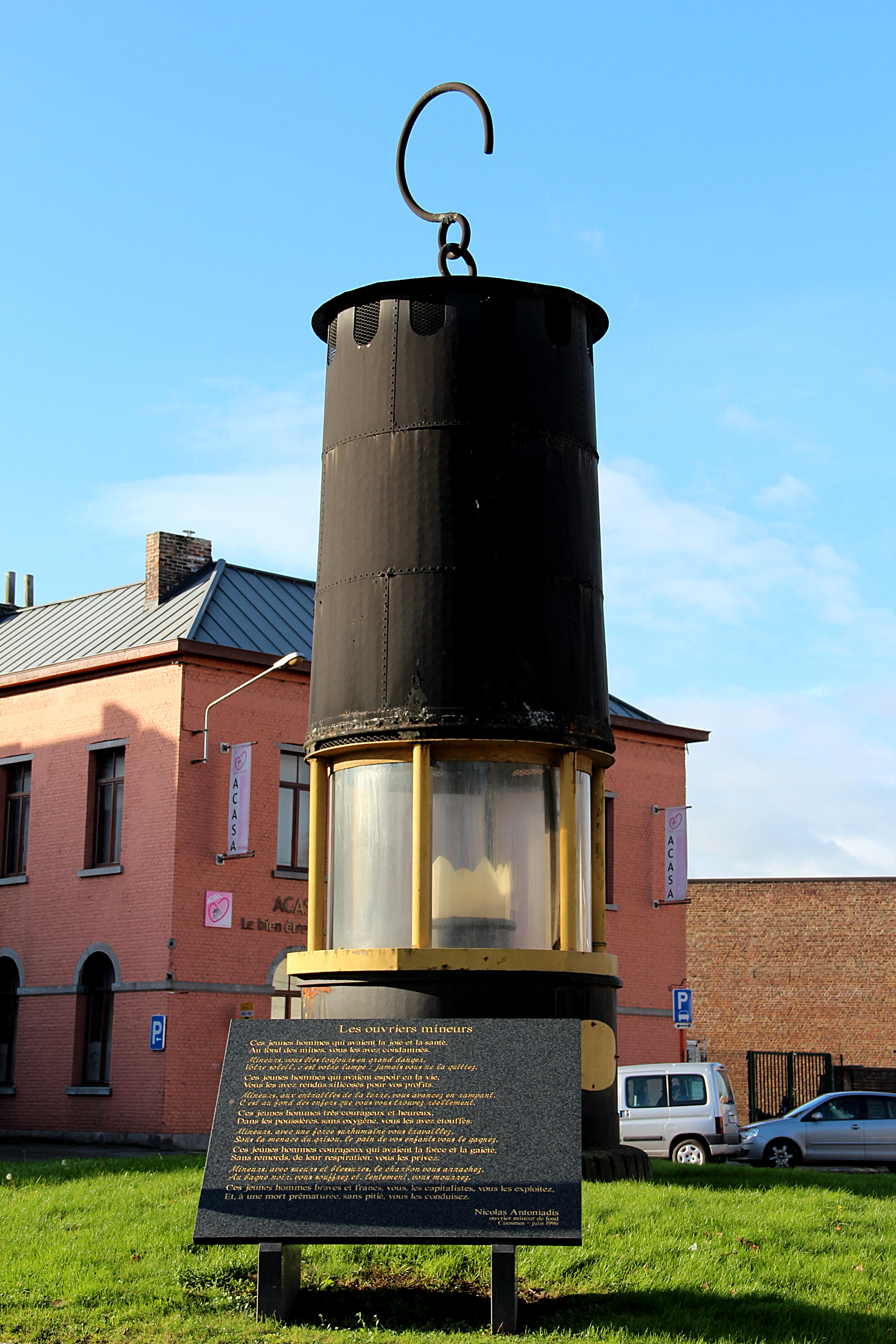 Cuesmes (Belgium), place de Cuesmes - Giant mining's lamp known locally as the name of the "quinquet".